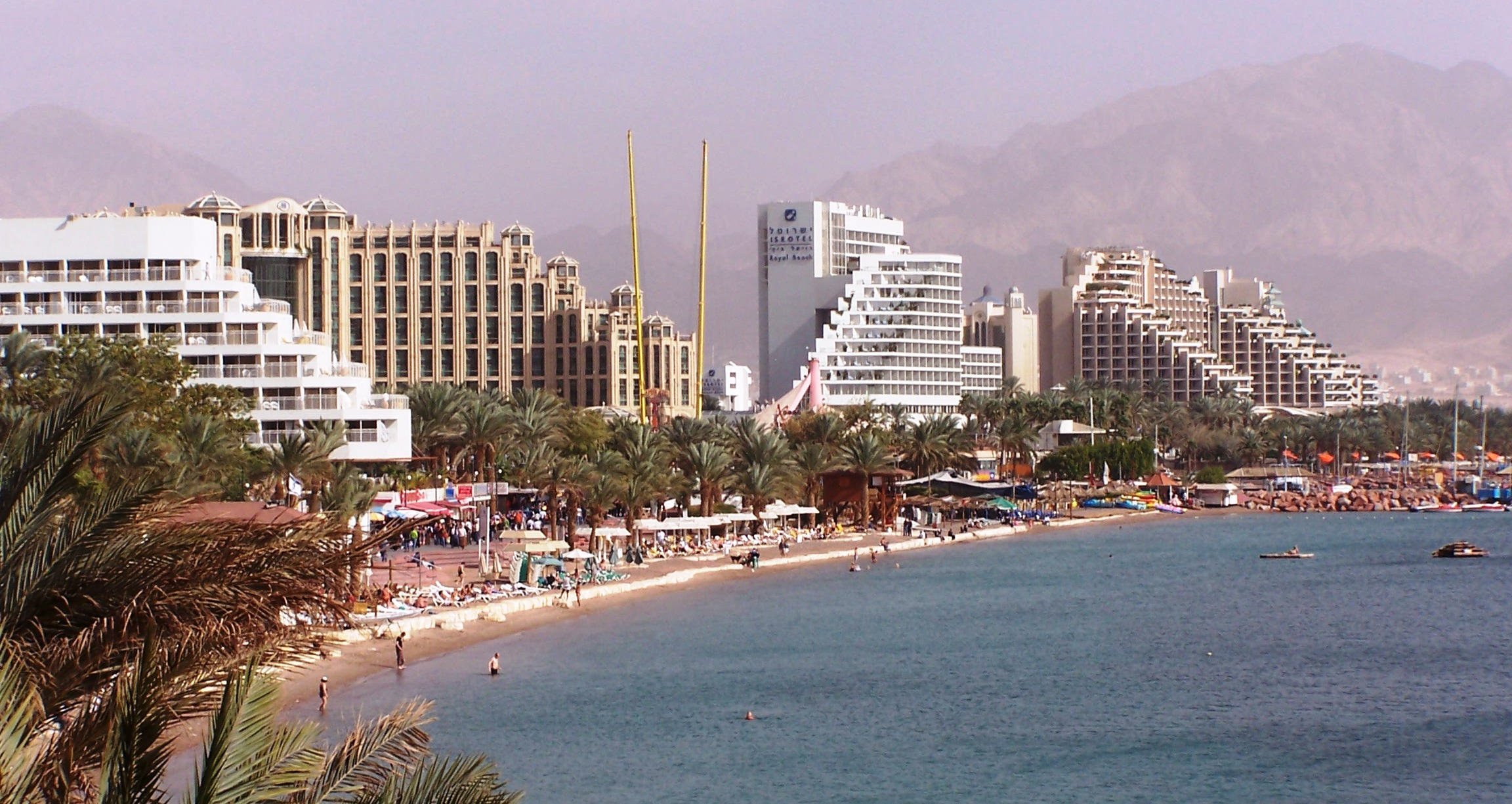 An improved version of North_Beach_Eilat.jpg